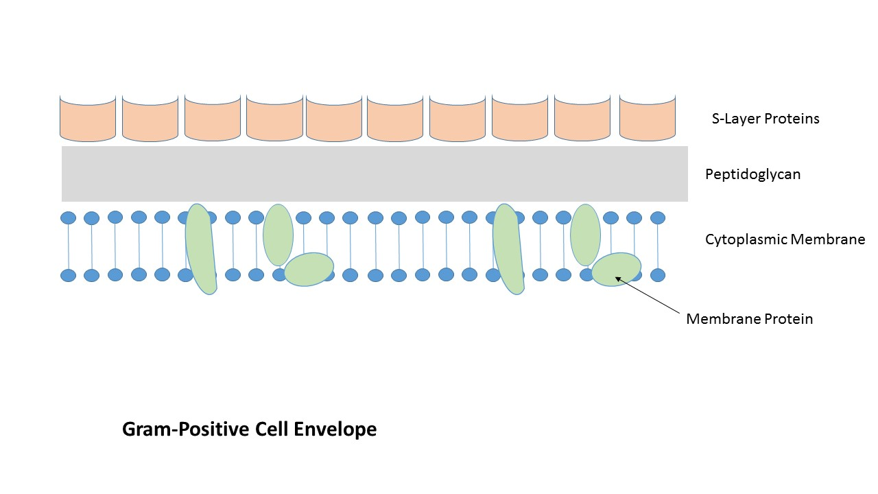 Gram-Positive Cell Envelope showing the location of S-layer proteins.